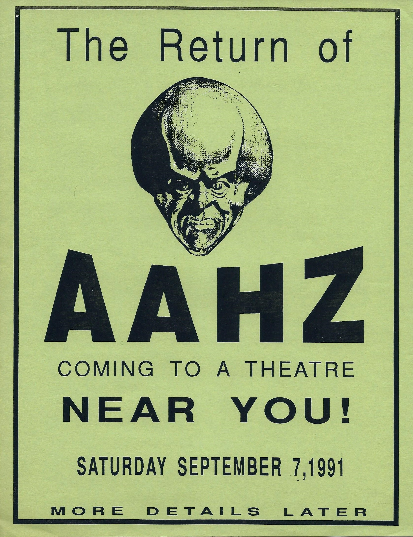 Promotional flyer used by Beacham Theatre for The Return of Aahz event on Saturday, September 7, 1991